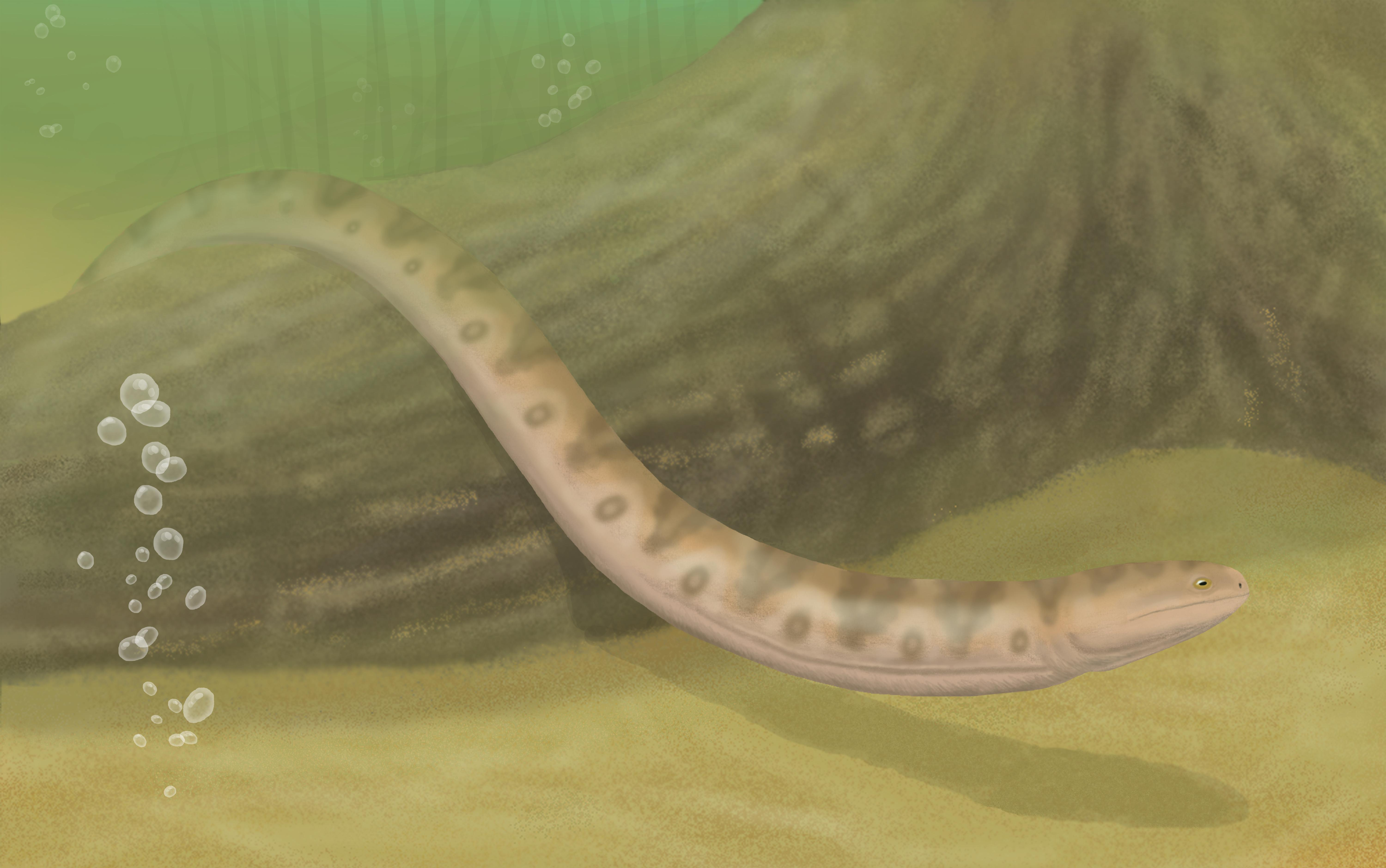 Life restoration of Palaeomolgophis scoticus. Based on figure 6 of "The origin and early radiation of terrestrial vertebrates" by Robert L. Carroll. Journal of Paleontology 2001(75):1202-1213.